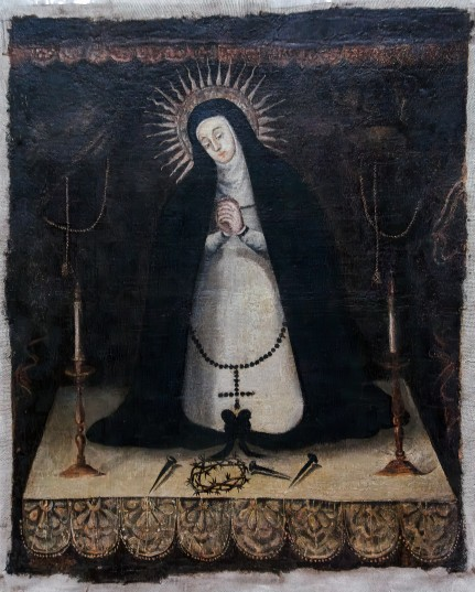 The Original Image of Our Lady of Solitude of Porta Vaga Without its Jewelry